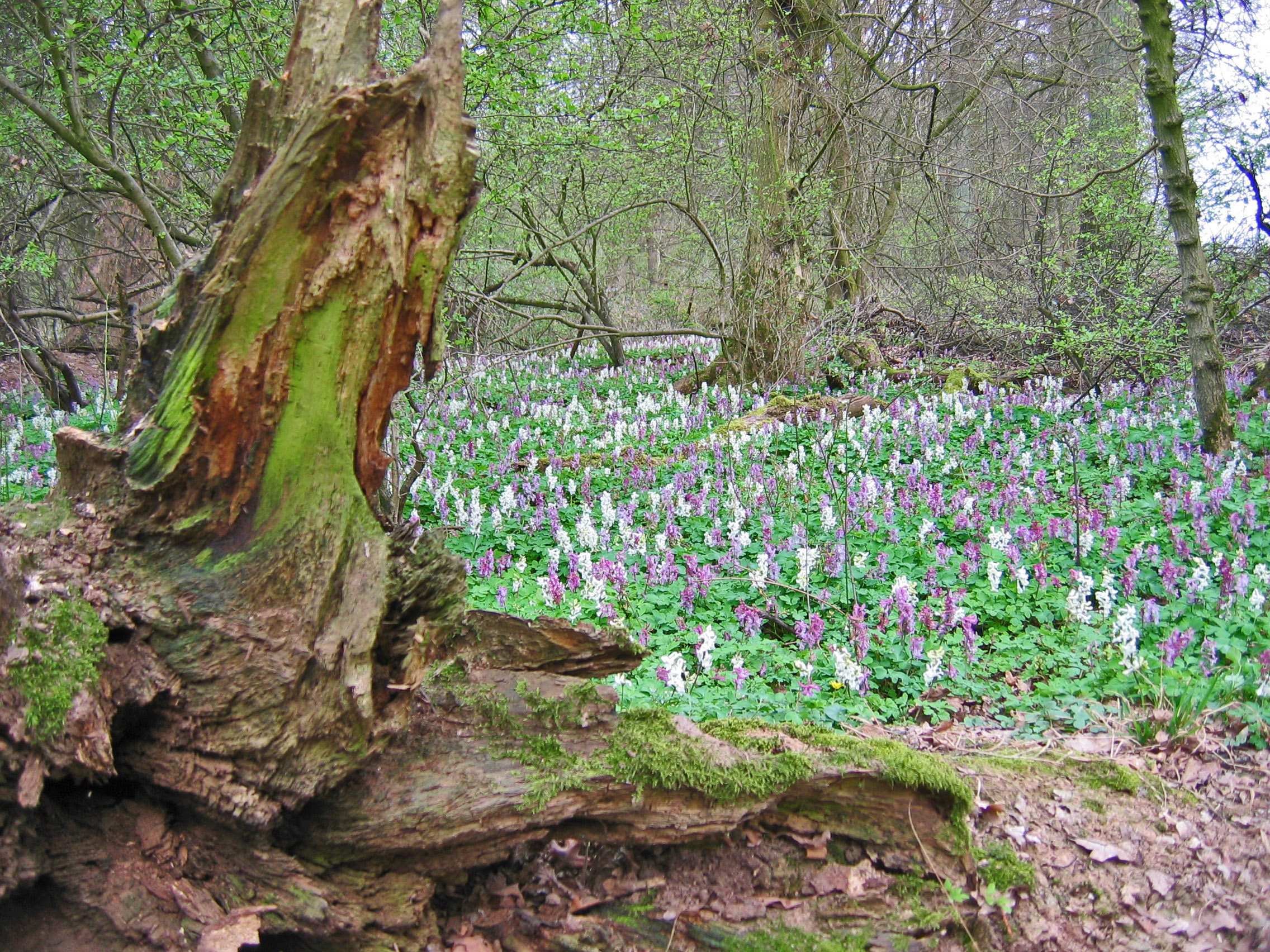 Bloom of violet an white corydalis in the nature-sanctuary "Alhuser Ahe" near Hassel/Weser (Germany)